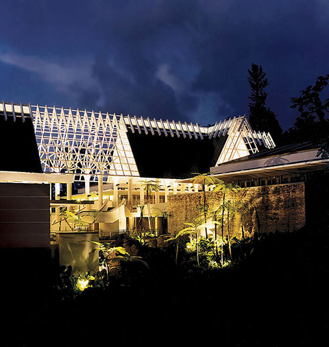 Night view of El Portal de El Yunque, 1997